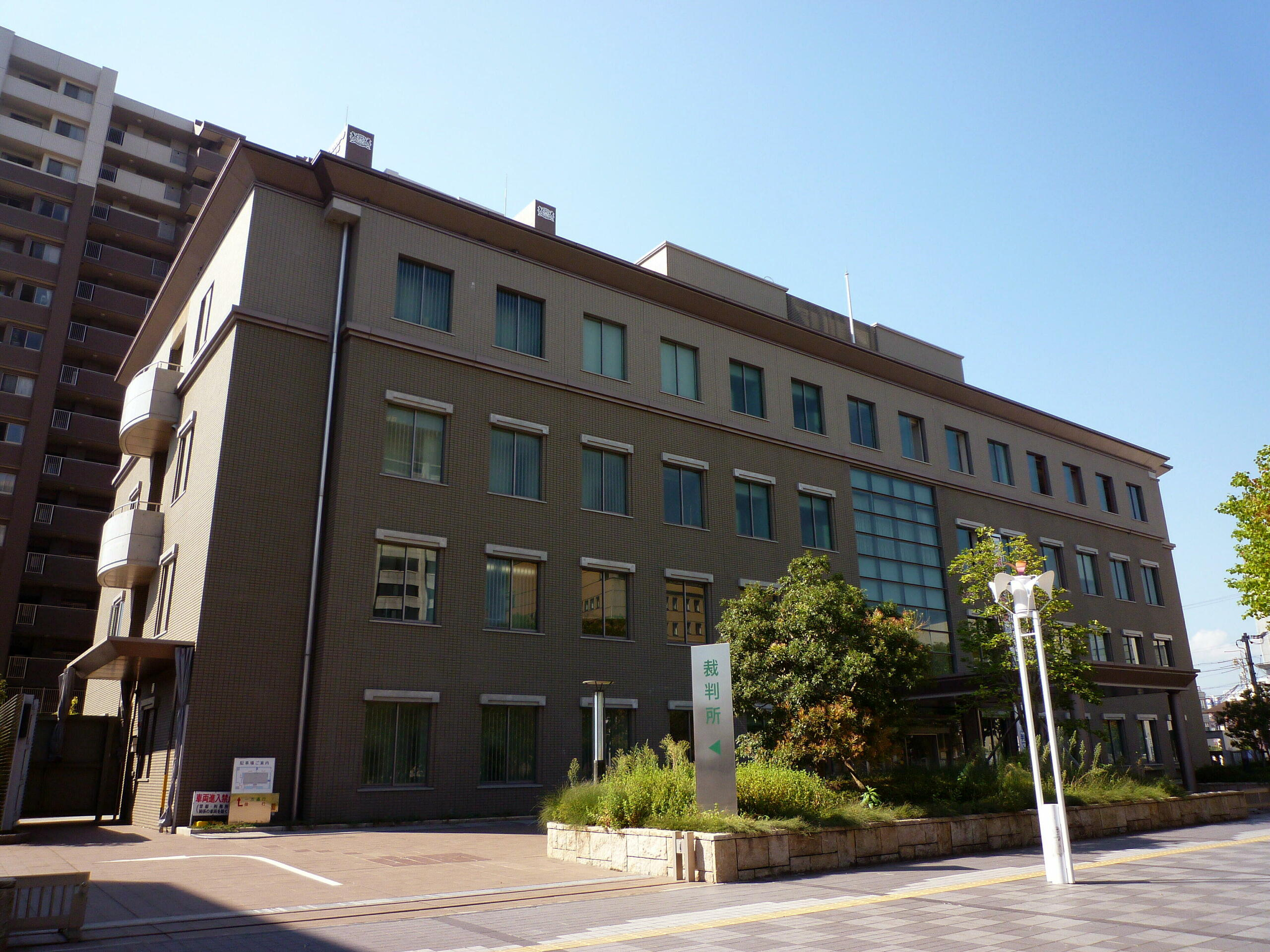 The "Tsu District Court Yokkaichi Branch" in Yokkaichi, Mie, Japan.